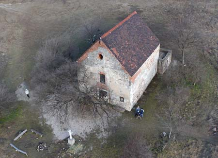 Gercse, Budapest, Hungary, aerial photographyBiztos? a Gercsepusztai Boldogasszony Templom máshogy néz ki?!